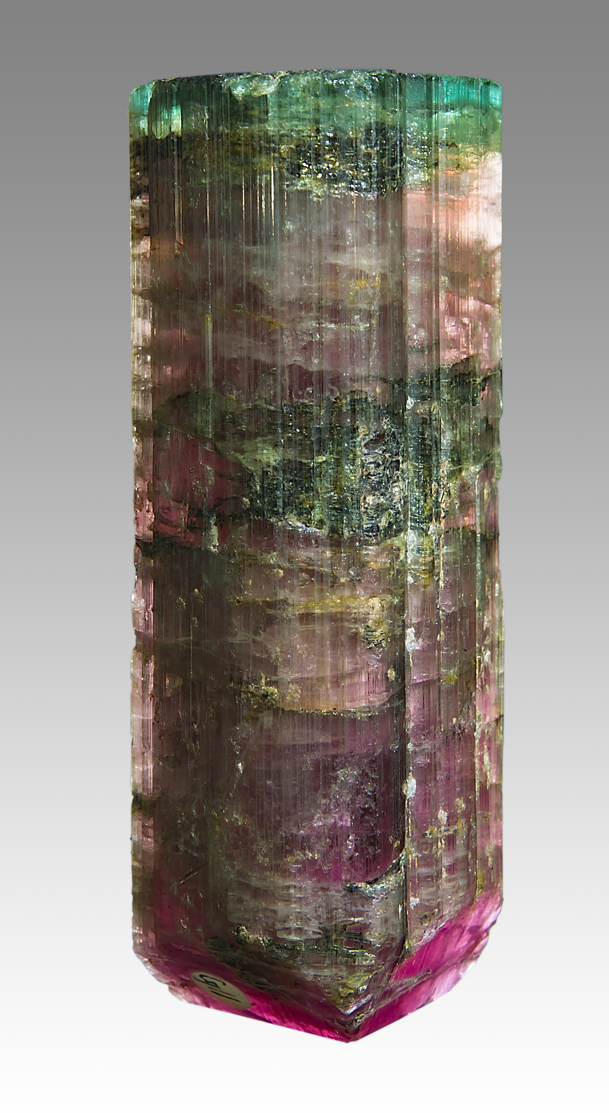 Elbaite Locality: Cruzeiro mine, São José da Safira, Doce valley, Minas Gerais, Southeast Region, Brazil Size: 8.2 x.3.2 x 2.6 cm.